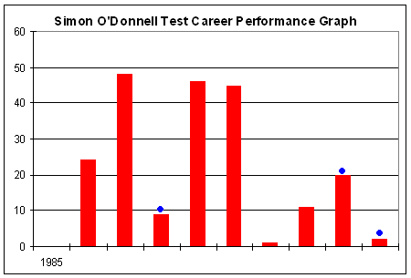 Test batting chart of Simon O'Donnell. Red columns are the runs in the innings. Blue dots indicate not outs. Blue line is average in the last ten innings. Thanks to Raven4x4x for providing the template.